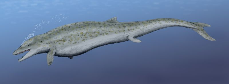 Dorudon atrox, an ancestral whale from the Late Eocene of Egypt, pencil drawing, digital coloring